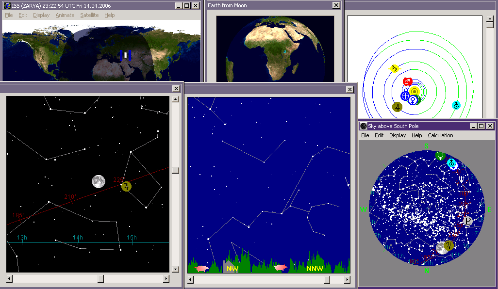 capture of John Walker's Home Planet, all modules